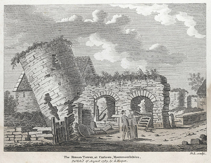 A view of the ruins of a Roman tower at Caerleon with two figures standing in the foreground.